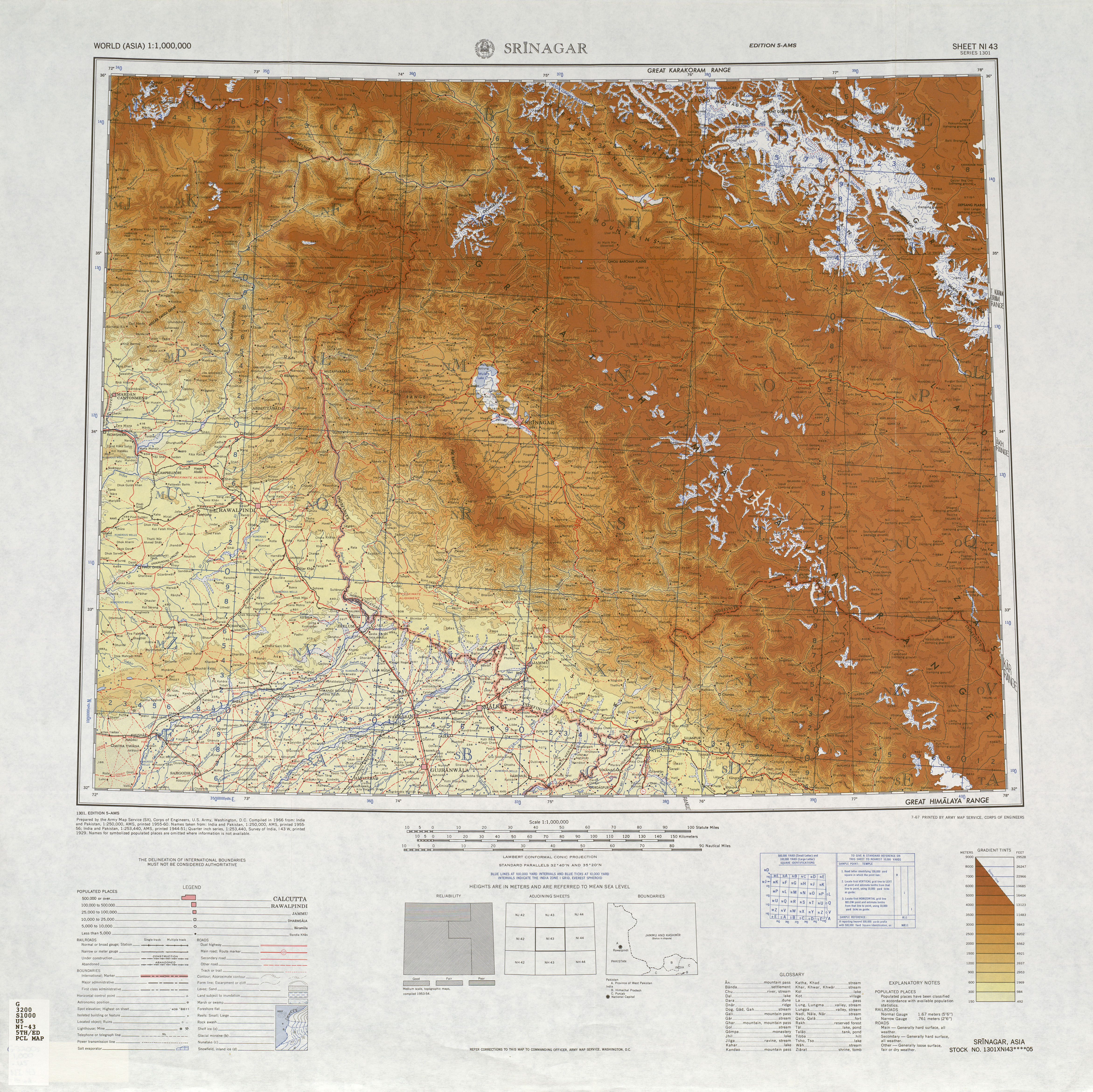 Srinigar, 1:1,000,000 compiled in 1966 by Army Map Service as noted on map. 5th edition.